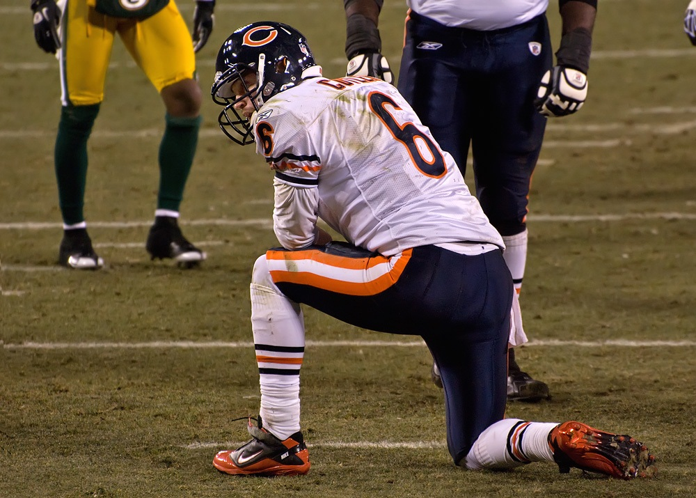 Lambeau Field - January 2, 2011. Photo by Mike Morbeck.